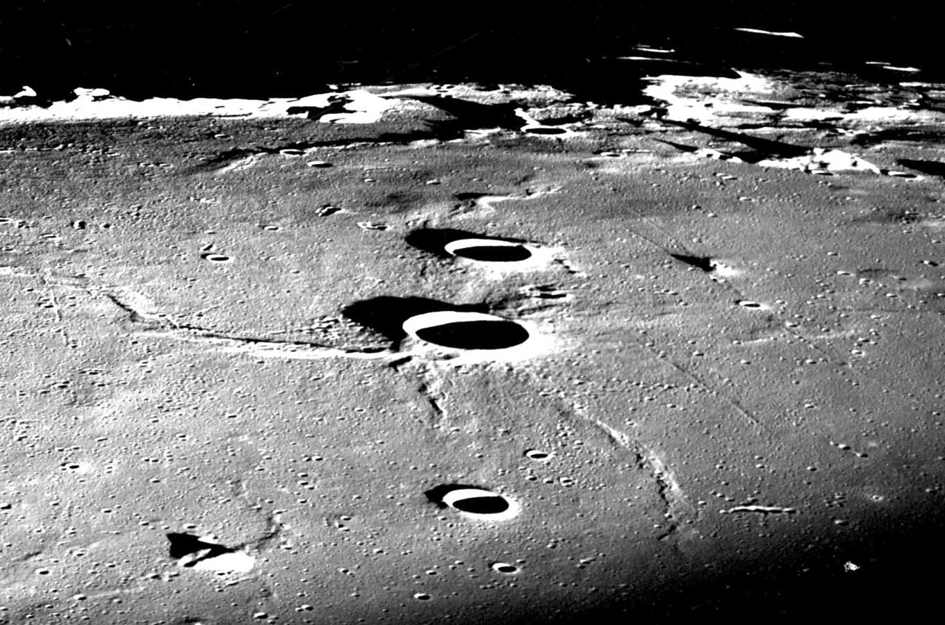 Oblique view of Sinas (center), on the moon. Facing northwest, with Sinas A in foreground and Sinas E behind Sinas.